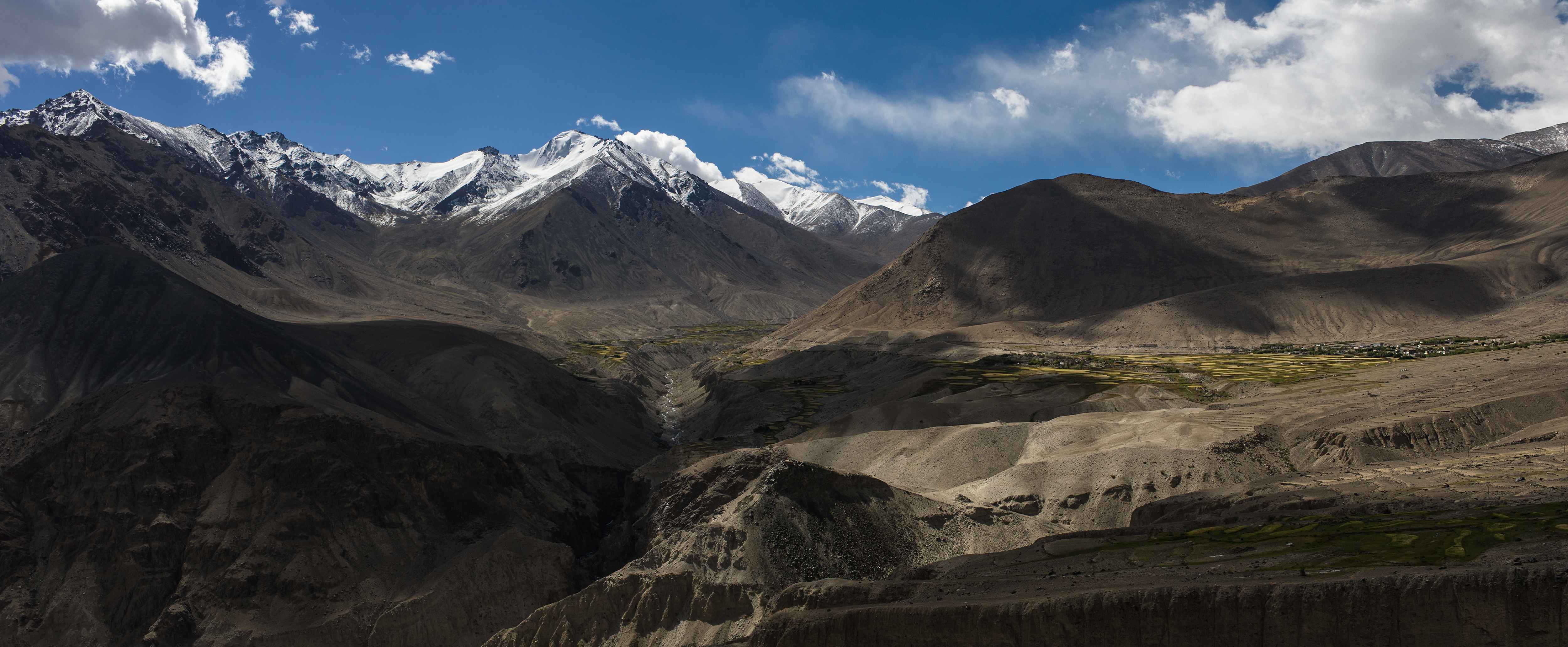 Khardung village near the pass of the same name, Khardung La, India